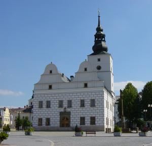 A town hall in Lanškroun, Czech Republic